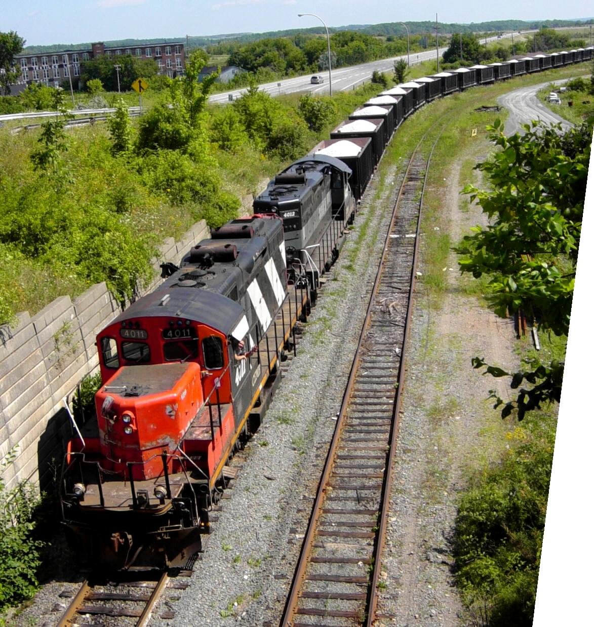 A Windsor and Hantsport Railway train, loaded with gypsum and headed for Hantsport, approaches Windsor, Nova Scotia, at 12:40pm, 22 August 2006. This is a typical WHR gypsum train, with 22 cars each carrying 80 tons of gypsum. Each week, WHR delivers about 25 trainloads of gypsum to the Hantsport dock, where it is loaded on ships for delivery to various ports along the United States eastern seaboard. This train is rolling along the old Midland Railway main line, and will transfer to the old DAR main line through a switch located about one trainlength ahead. The track on the right is the old Dominion Atlantic Railway main line track from Windsor to Windsor Junction (the notorious Windsor Branch). Just out of sight, in the yard behind the gypsum train, a grain train for New Minas is being assembled that will follow about 20 minutes behind the gypsum train.